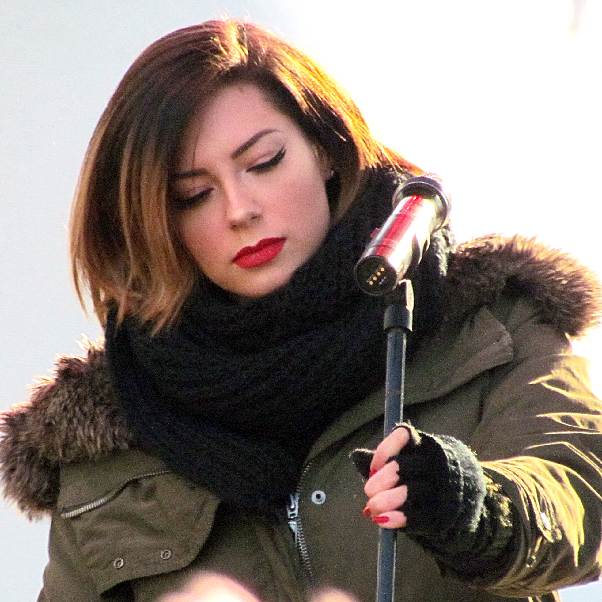 Serbian singer Sara Jo